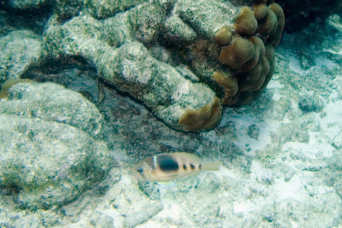 barred hamlet Hypoplectrus puella